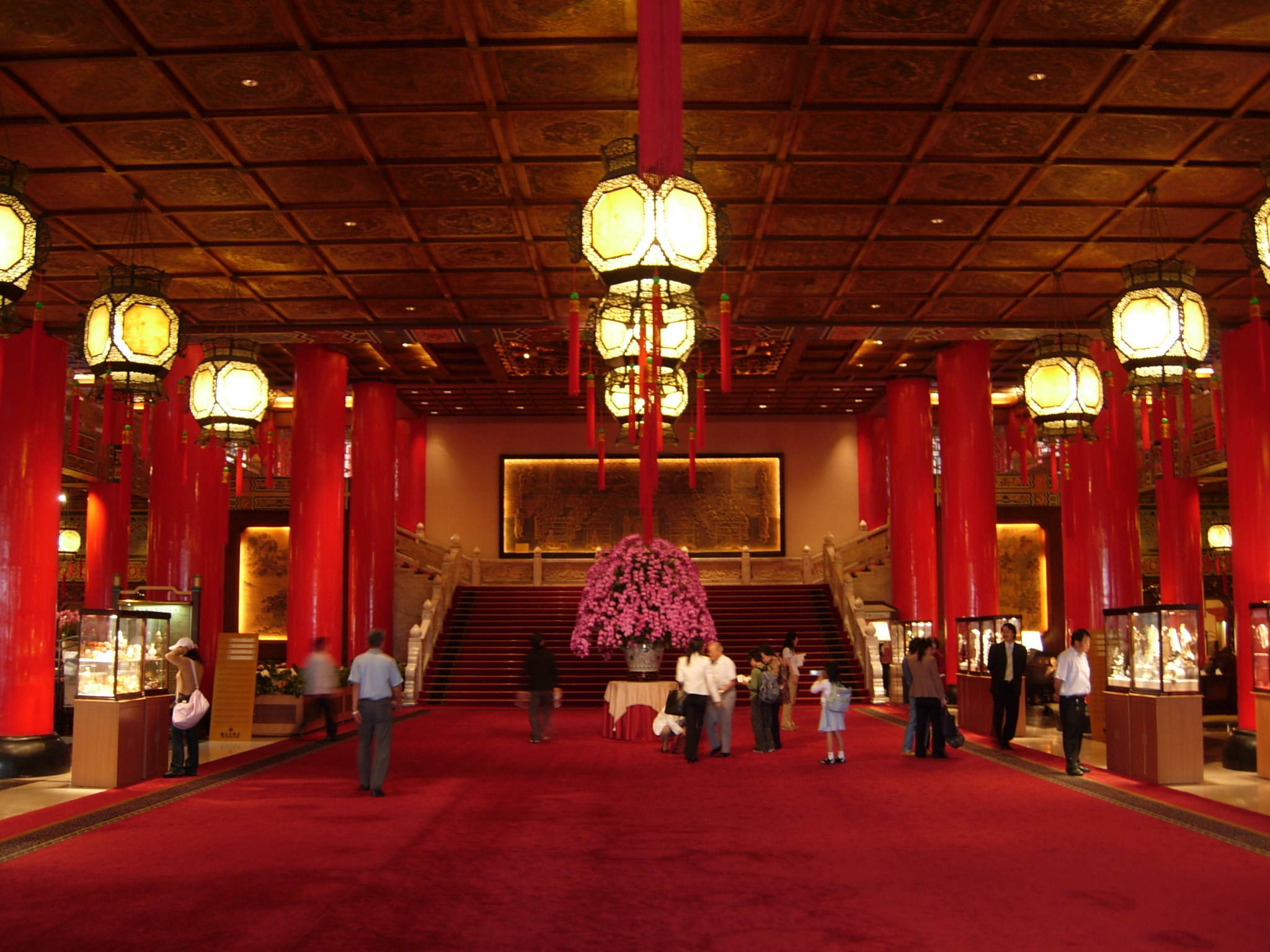 1F Lobby of The Grand Hotel Taipei